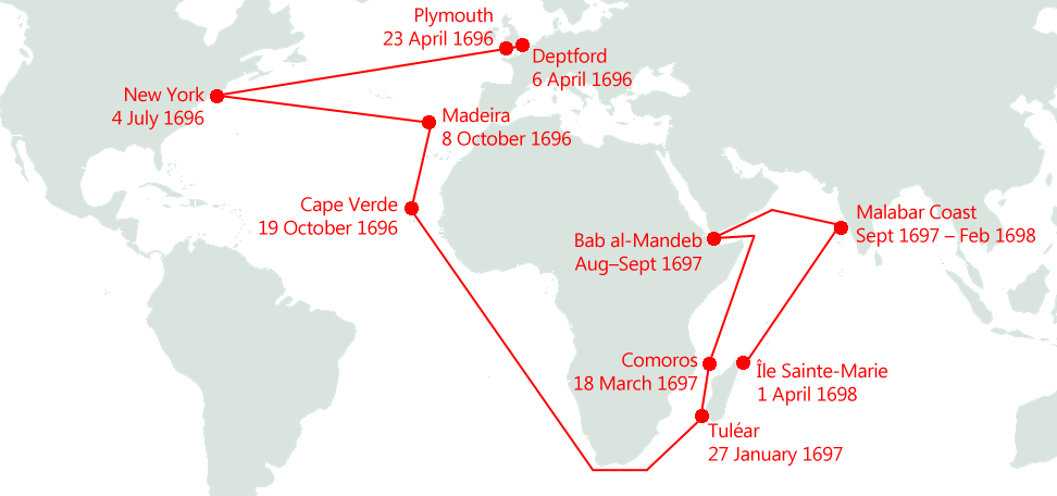 Map showing the route of the Adventure Galley, 1696-8